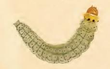 Stainton’s Natural History of the Tineina (1855–1873): Dichomeris derasella larva